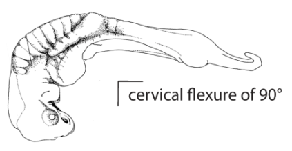 Standard Event System character depiction